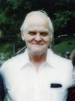 Gus Hall, CPUSA leader